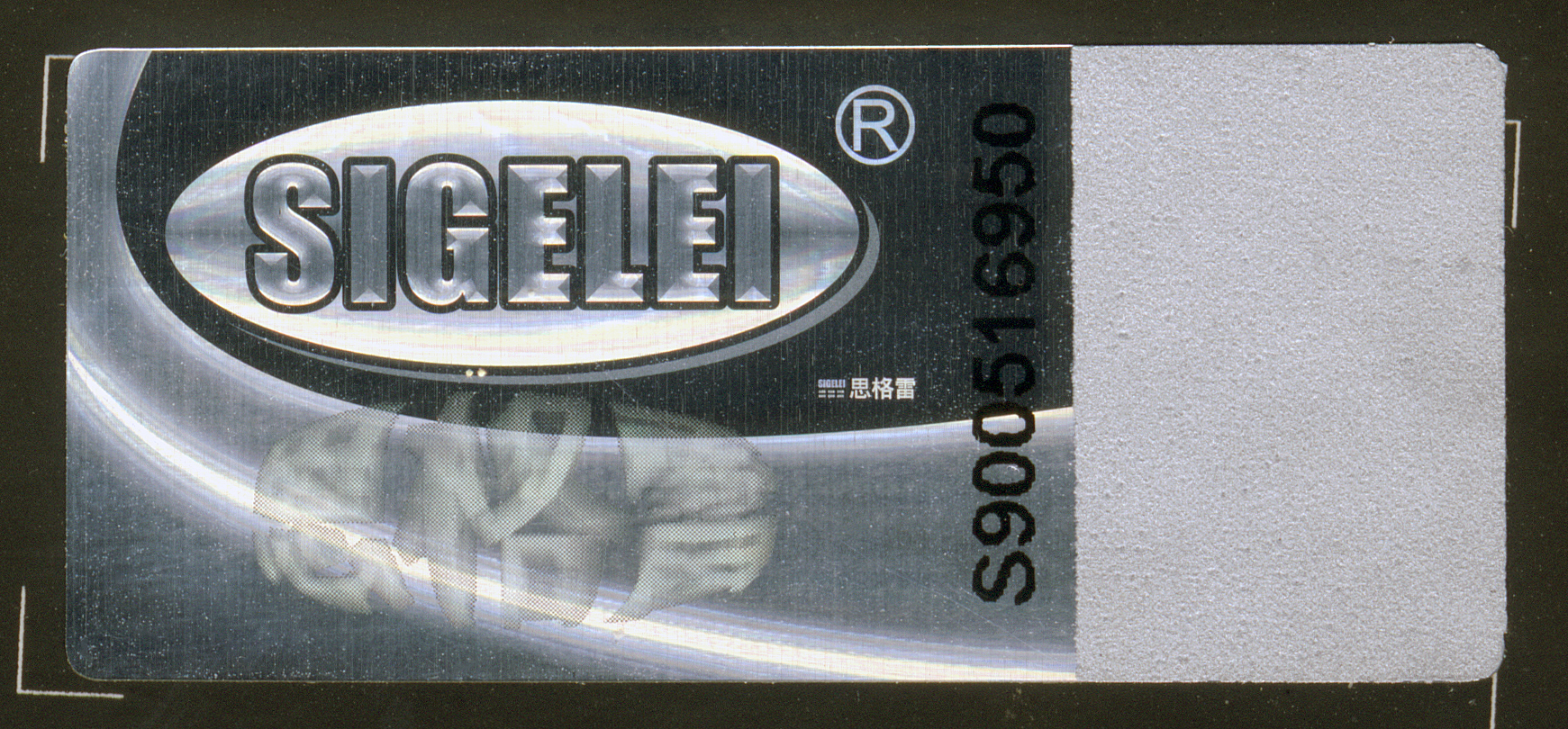 Brand Sigelei certificate of authenticity